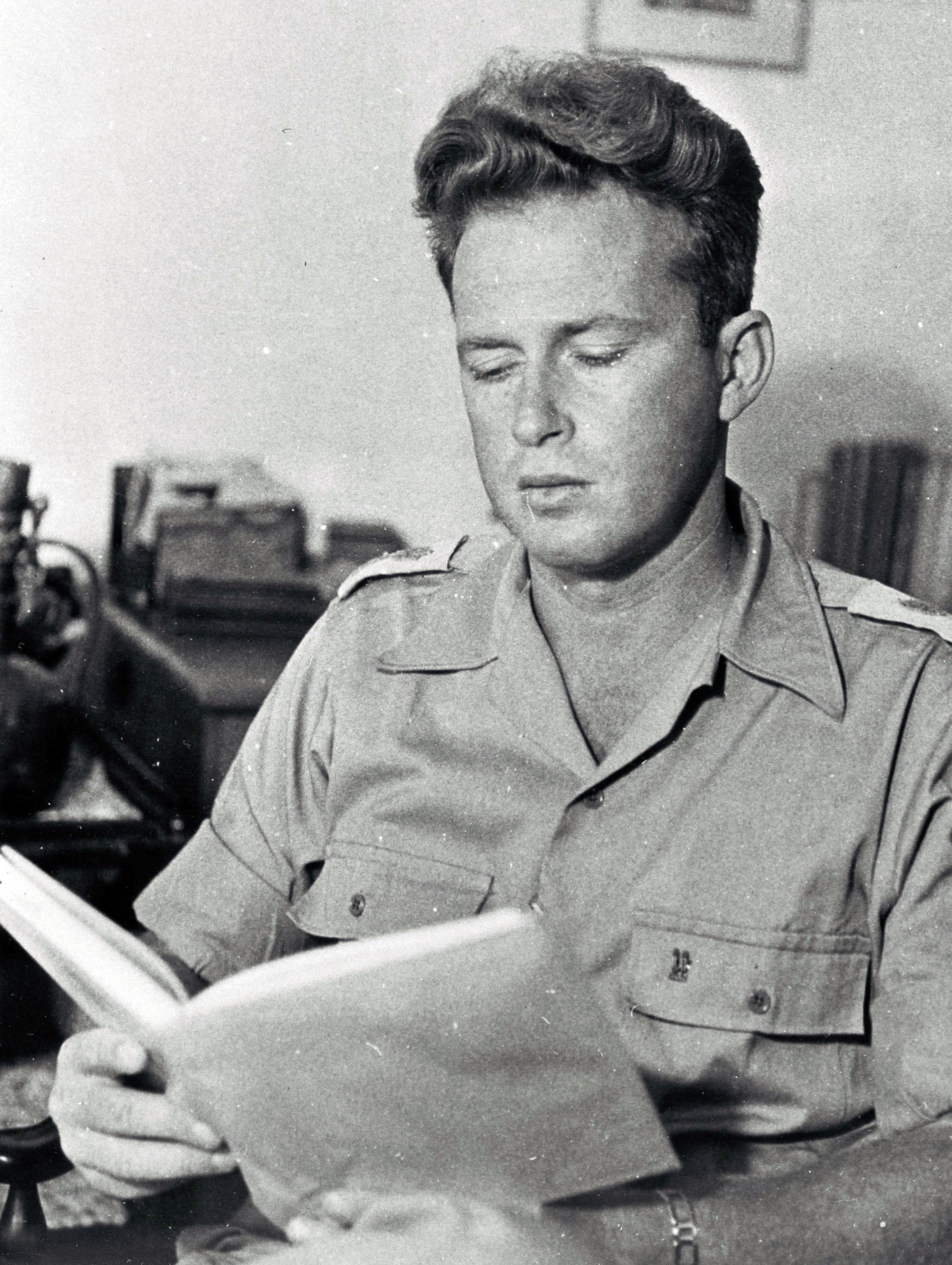 YITZHAK RABIN AS SGAN-ALUF WITH THE PALMACH EMBLERN.